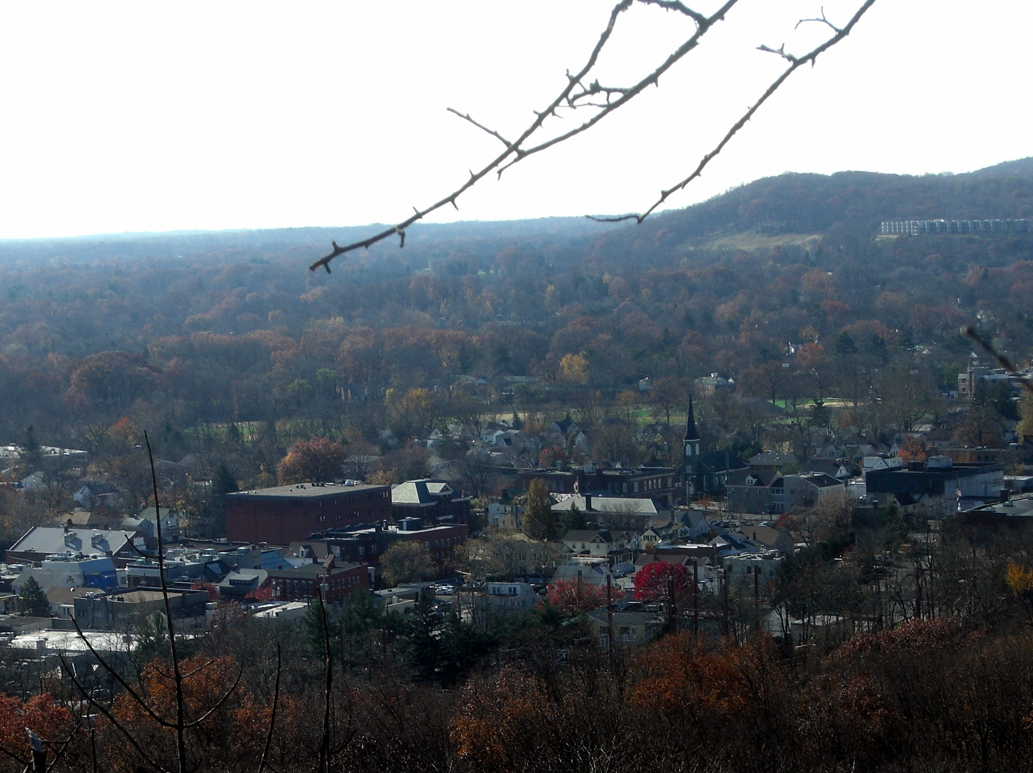 Millburn NJ in the fall.